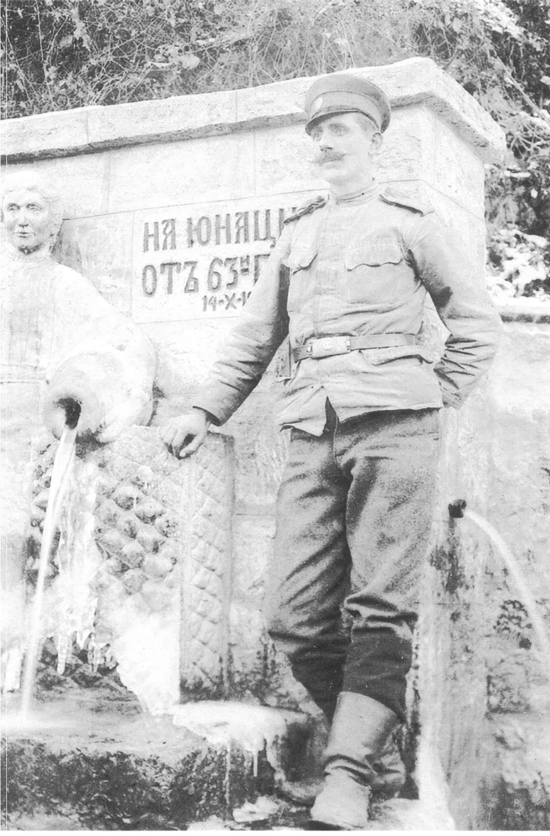 a portrait of Alexander Klimov